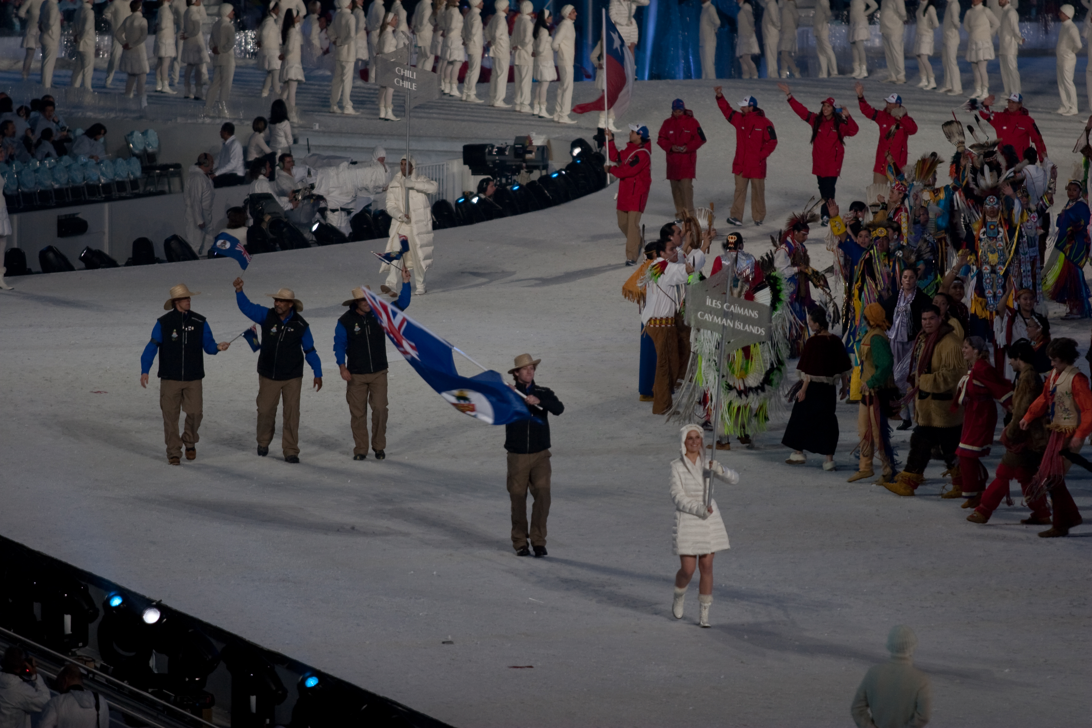 The athletes from the Cayman Islands entering the stadium at the opening ceremonies of the 2010 Winter Olympics